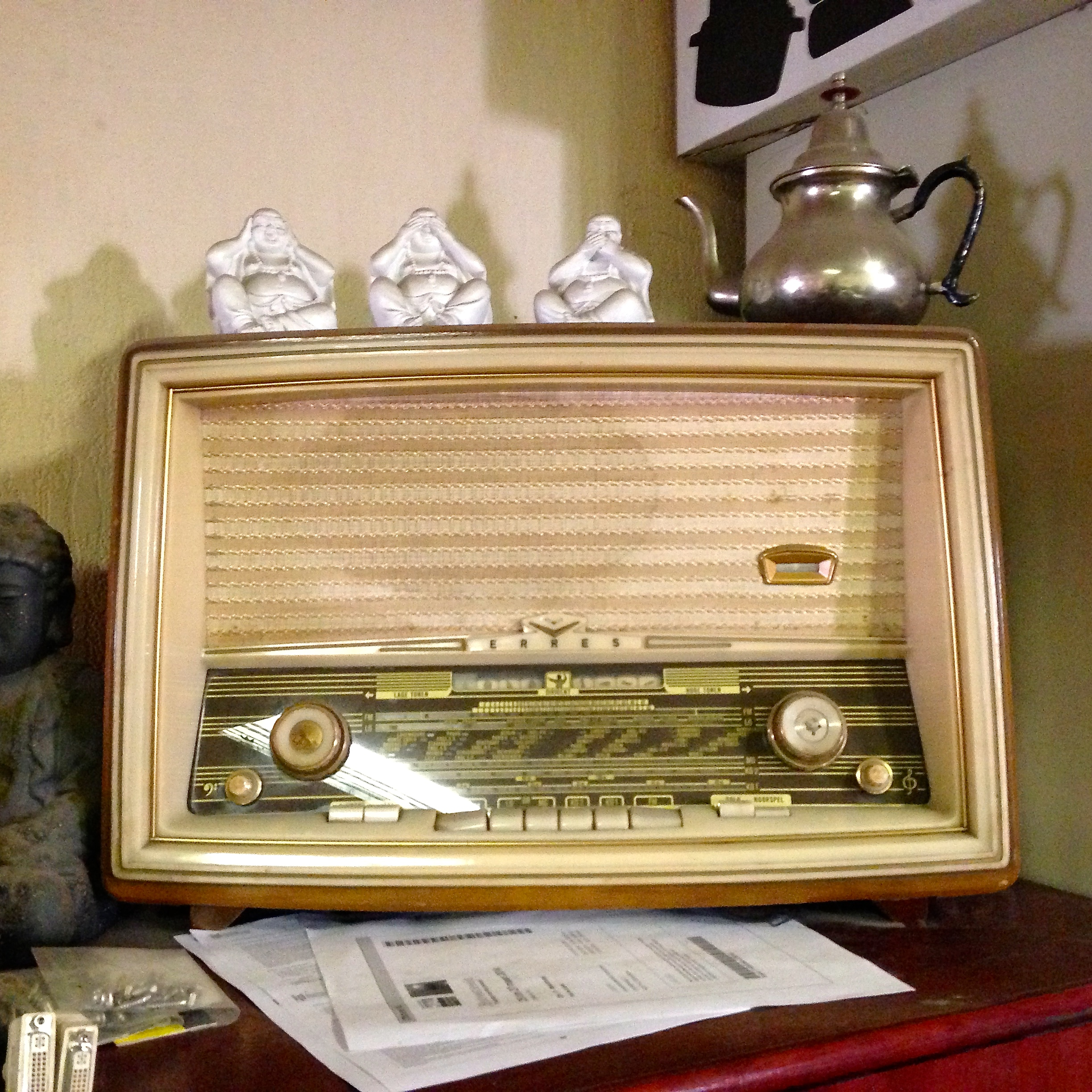 Dutch Erres radio, made by Van der Heem factory for R.S. Stokvis trading company. This styling was used by Van der Heem in 1958-1960, when the transistor was already on the way.